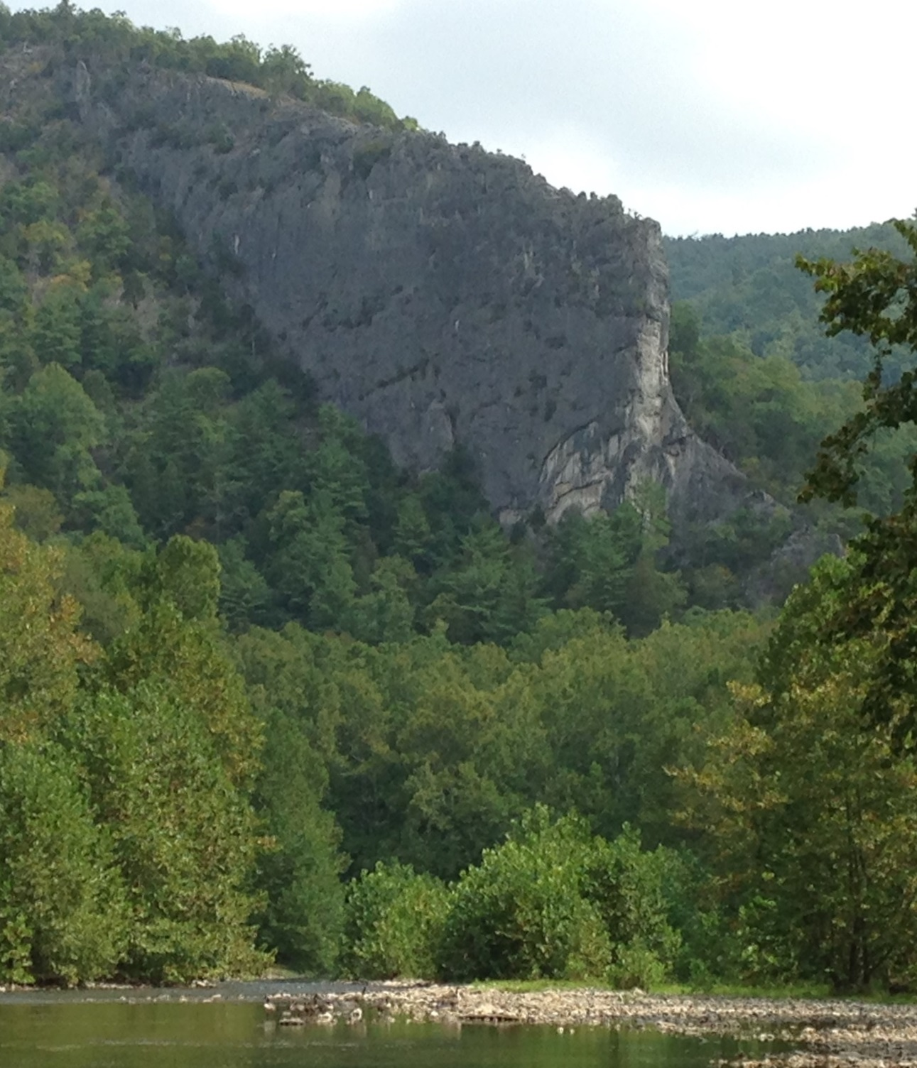 Blue Rock in the Smoke Hole Canyon of Grant County, West Virginia, USA.